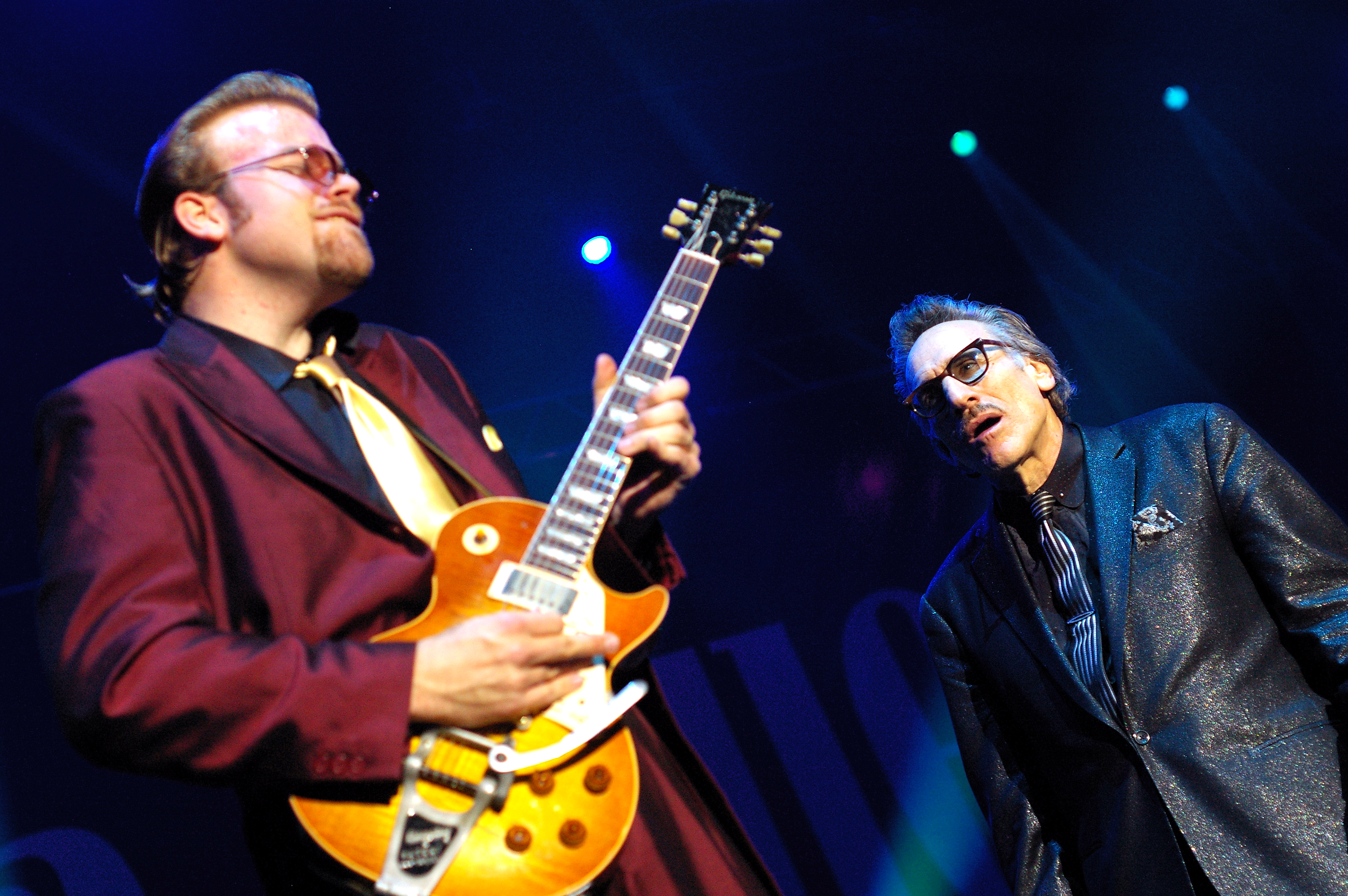 Taking of this photo was in cooperation with Rawa Blues (homepage) Rick Estrin & The Nightcats with Charlie Baty podczas 30 Festiwalu Rawa Blues 2010 09.10.2010 Katowice Spodek